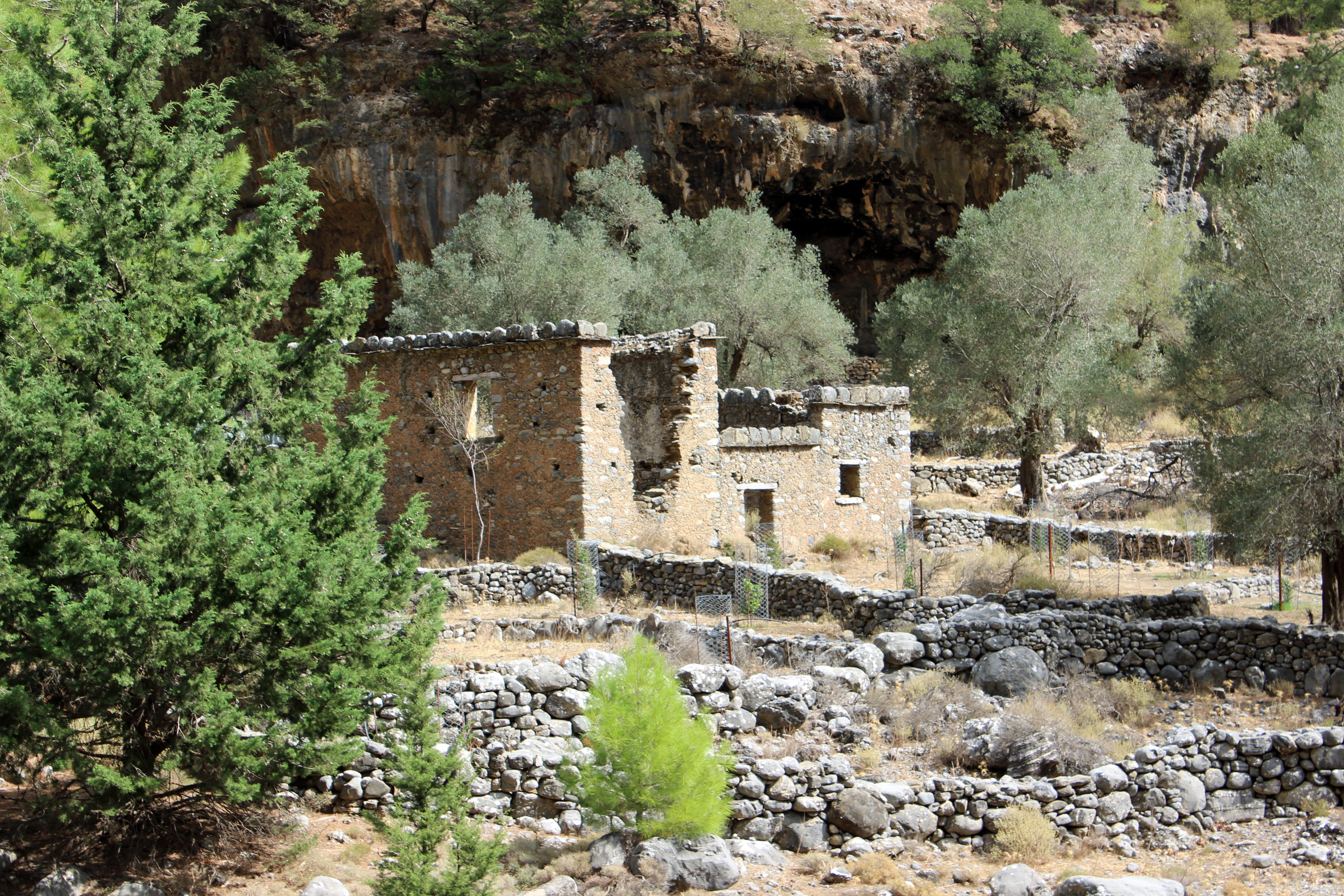 Ruins of Samaria village, in the Samaria Gorge, Crete, Greece